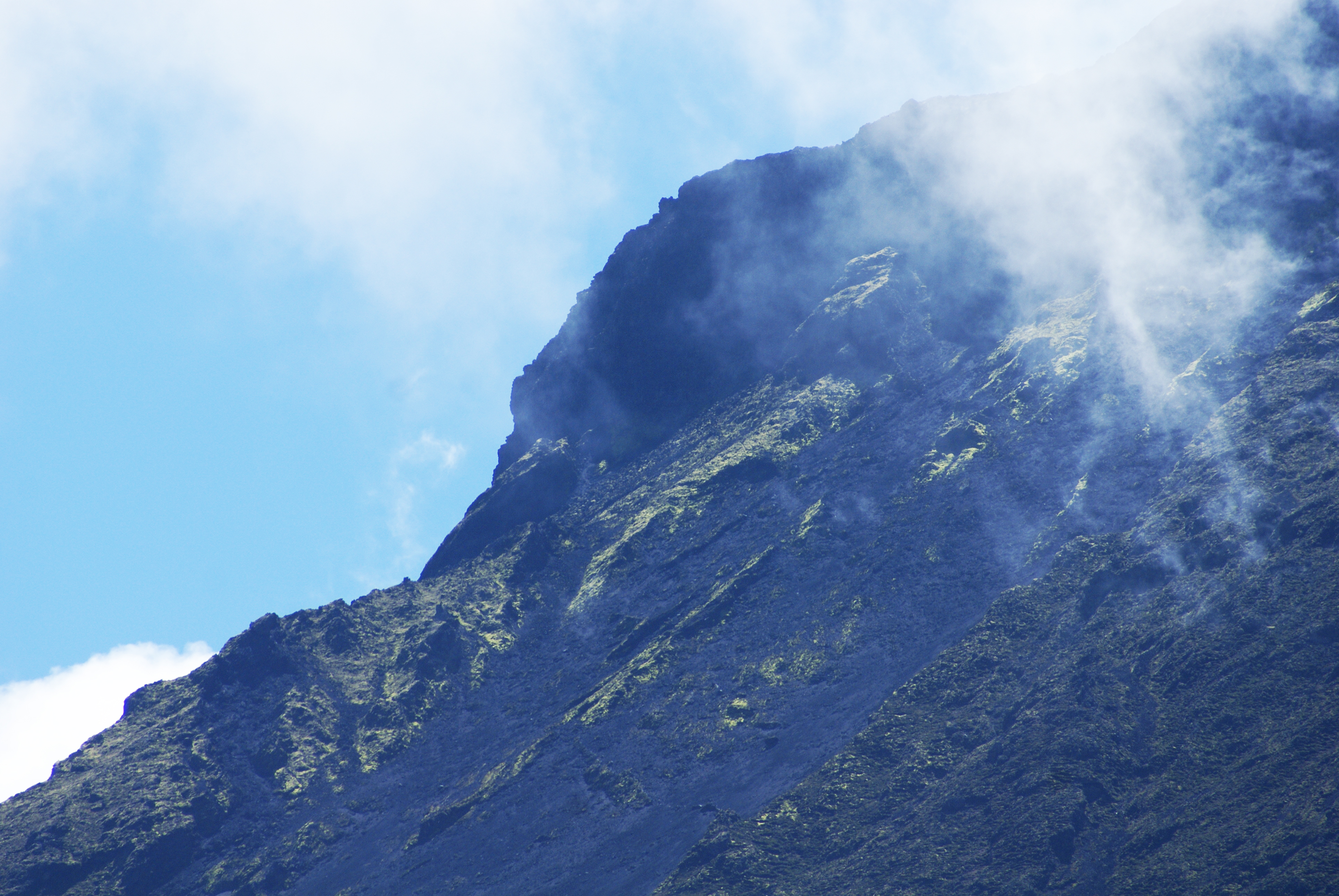 Montanha do Pico, aspectos, próximo ao cume 4 ilha do Pico, Açores, Portugal